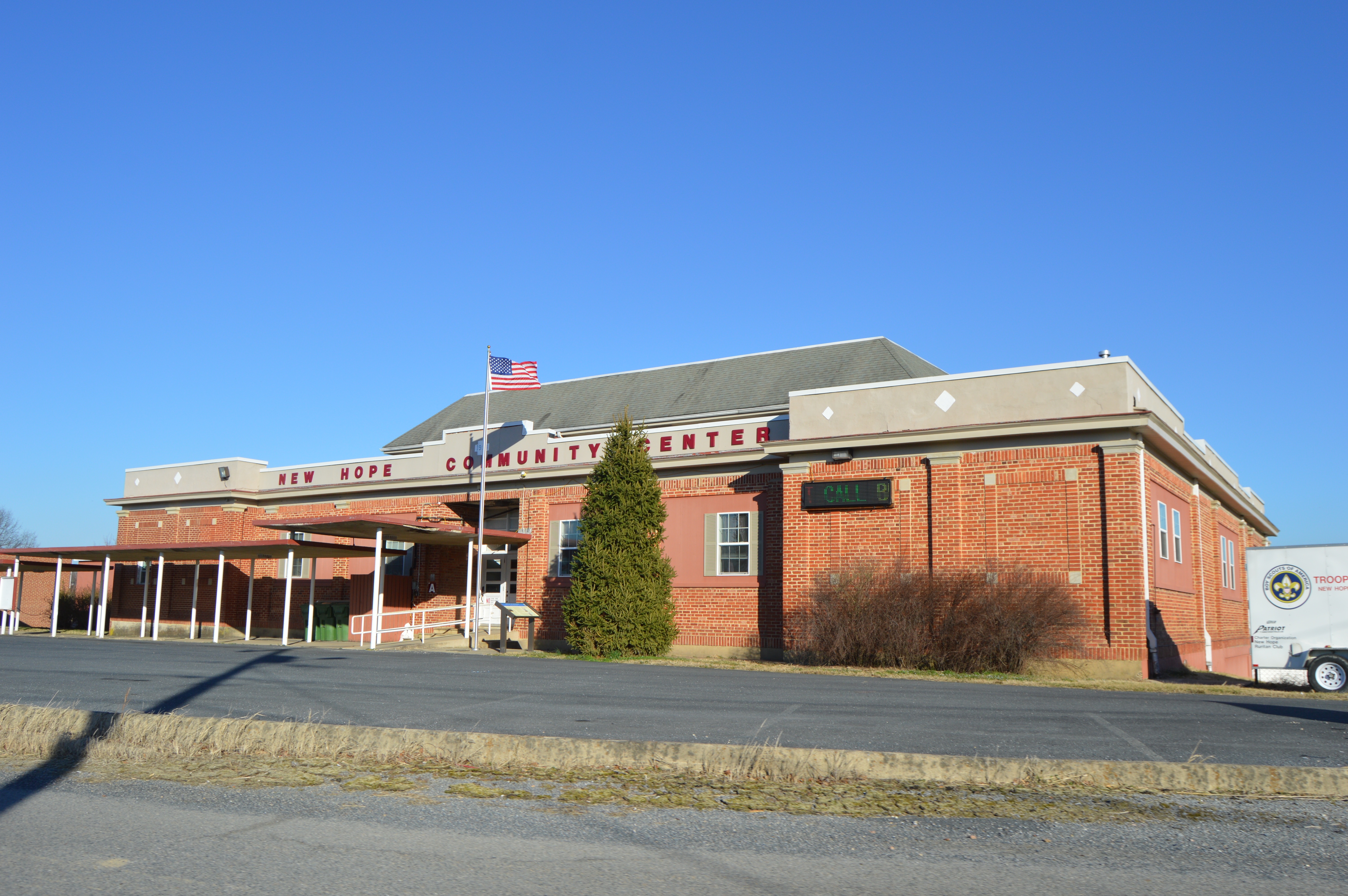 Front of the New Hope High School (now a community center), located on Battlefield Road in New Hope, Virginia, United States. Built in 1925, it is listed on the National Register of Historic Places.